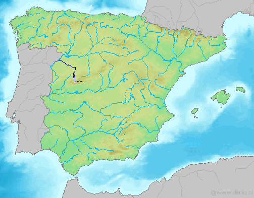 Map of Spain without Canary Islands. In dark blue, the Tormes river